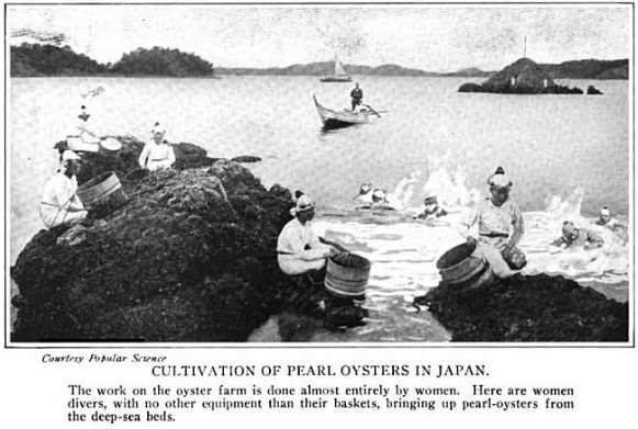 Cultivation of pearl oysters in Japan. The work on the oyster farm is done almost entirely by women. Here are woemn divers, with no other equipment than their baskets, bringing up pearl-oysters from the deep-sea beds. From Frank Coffee's 1920 book Forty Years On the Pacific